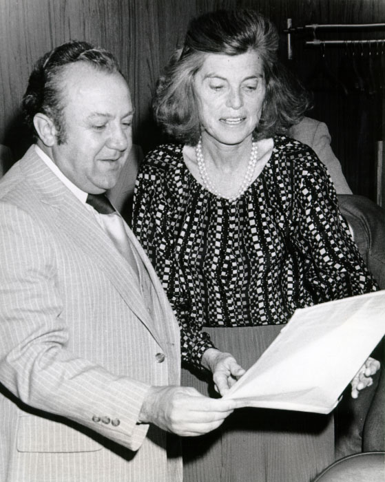 Soviet artist Zurab Tsereteli with Special Olympics founder Eunice Kennedy Shriver.